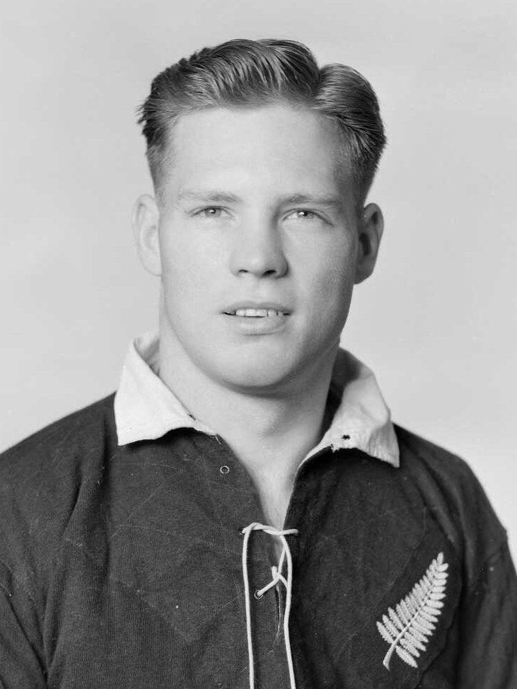 Ron Hemi, member of 1953-1954 All Black touring team